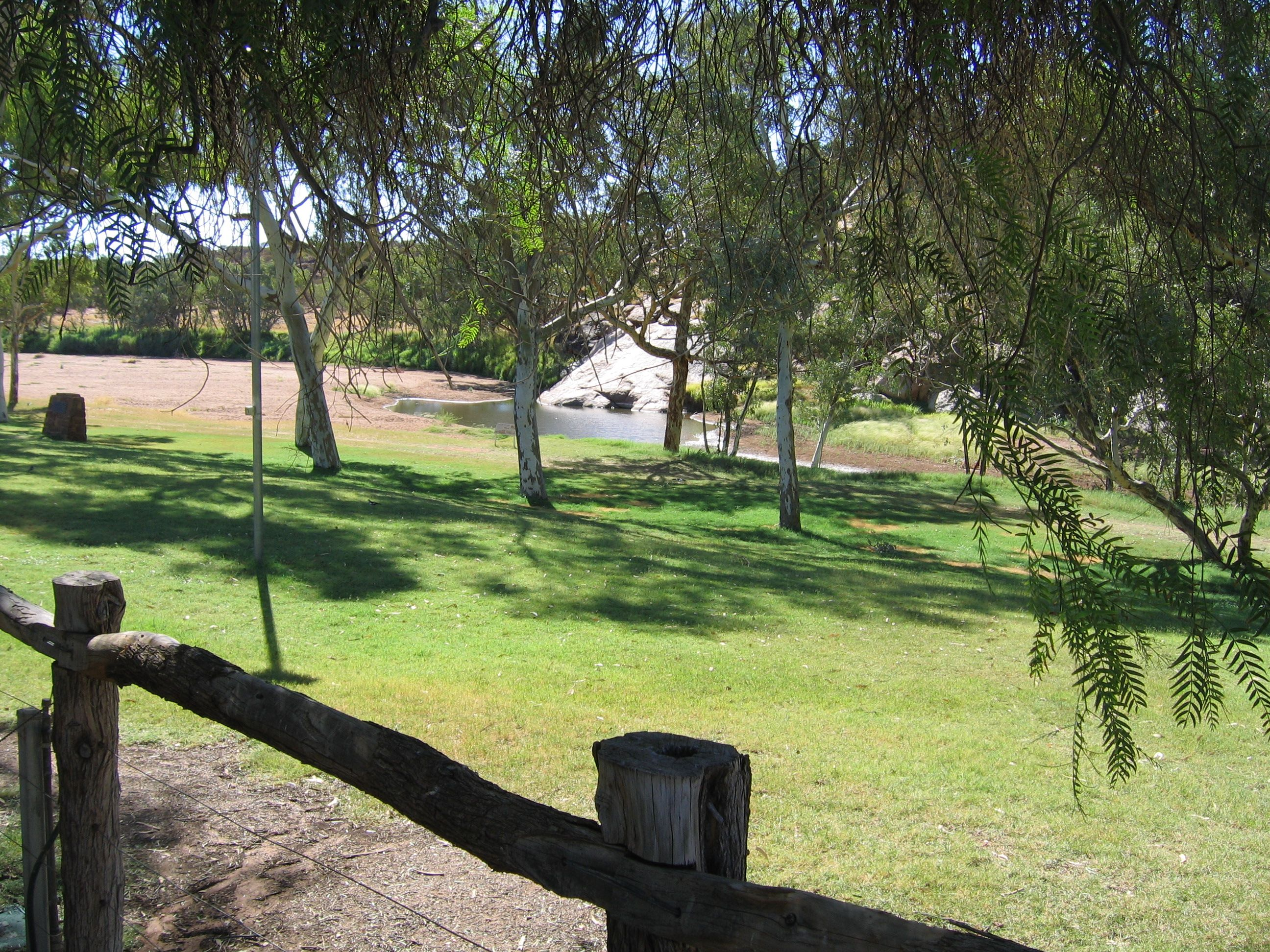 Alice Springs Telegraph Station, water hole near the Station